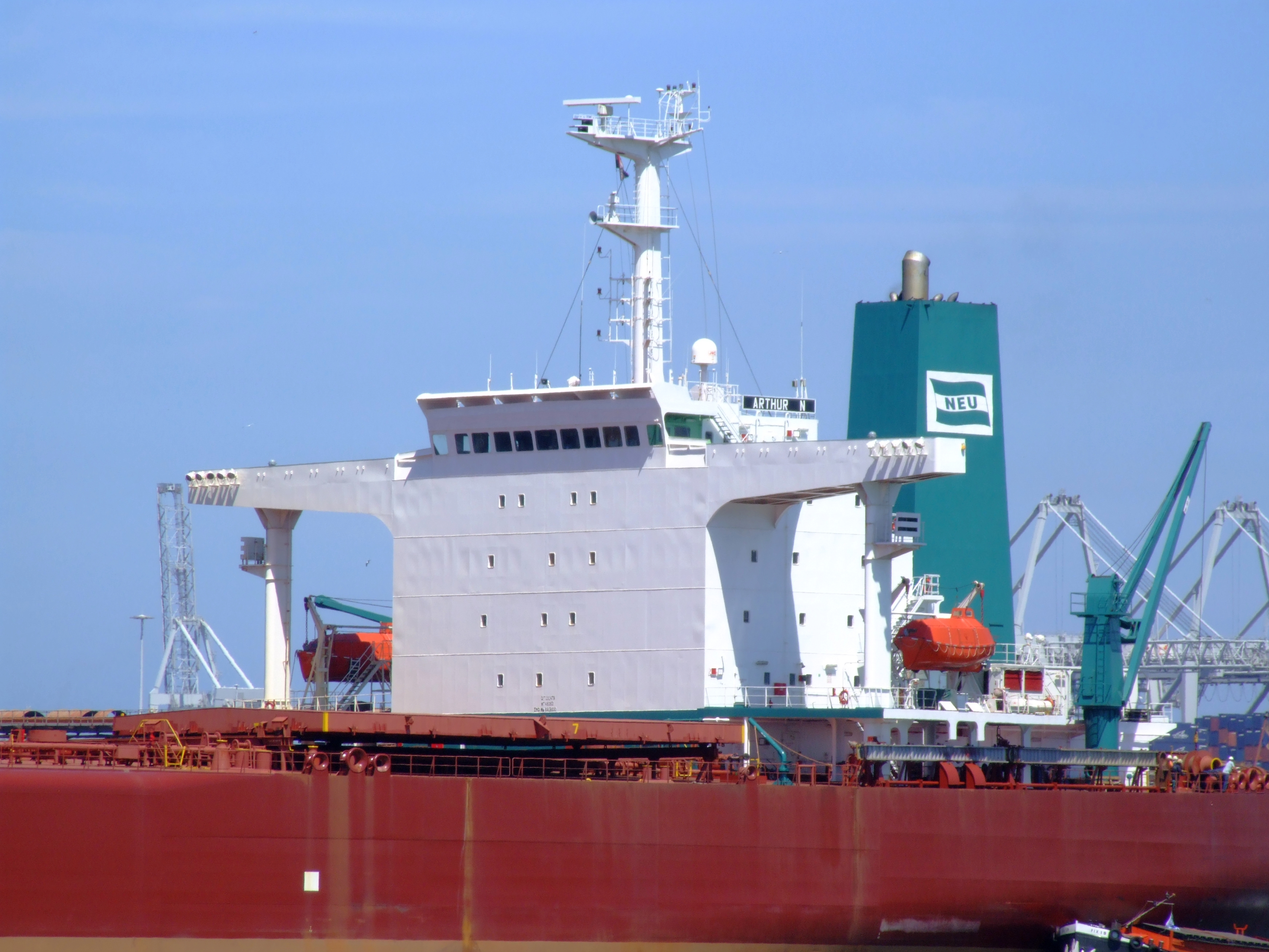 Photographed at the Port of Rotterdam, The Netherlands.